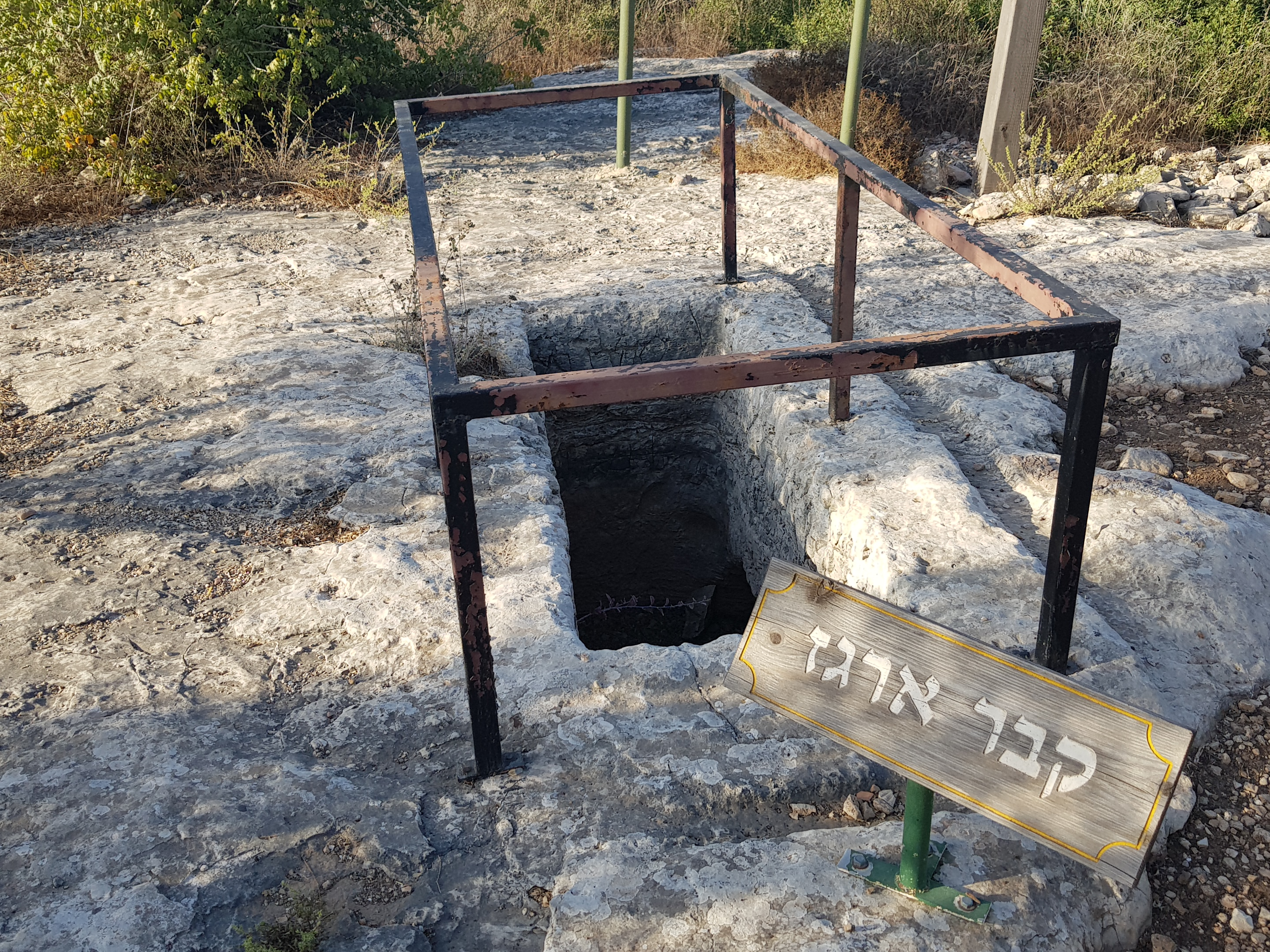 Findings on Hovela Hill13